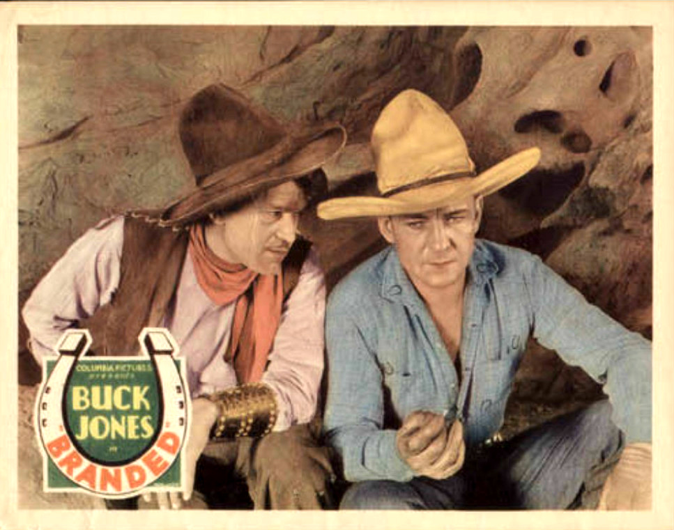 Lobby card from the American film Branded (1931).